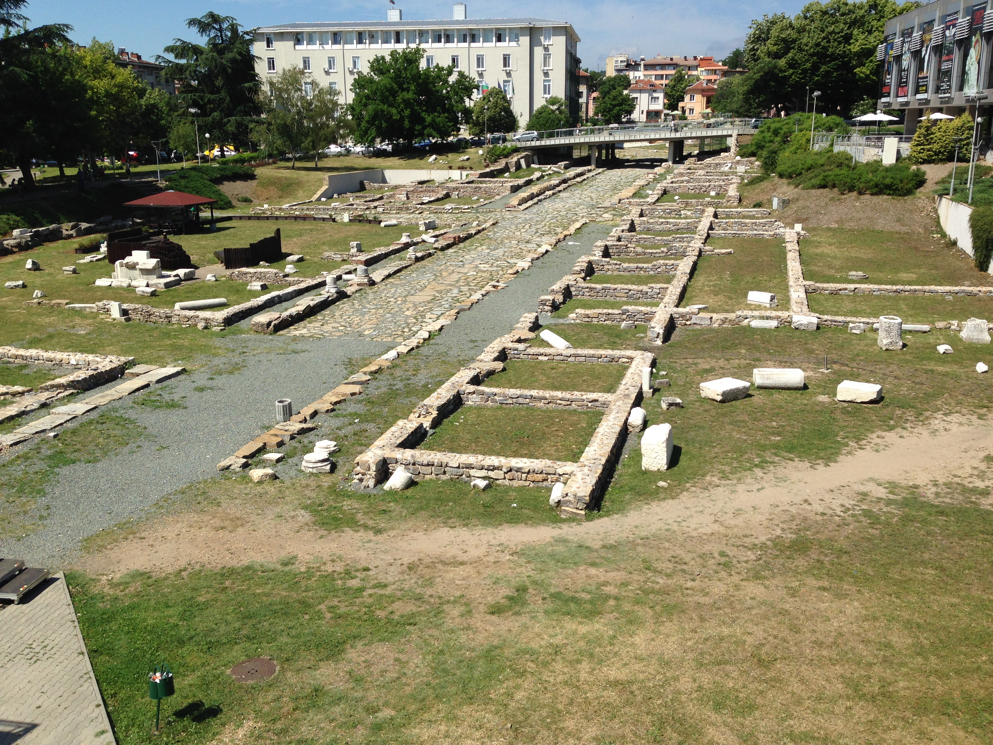 Street and houses